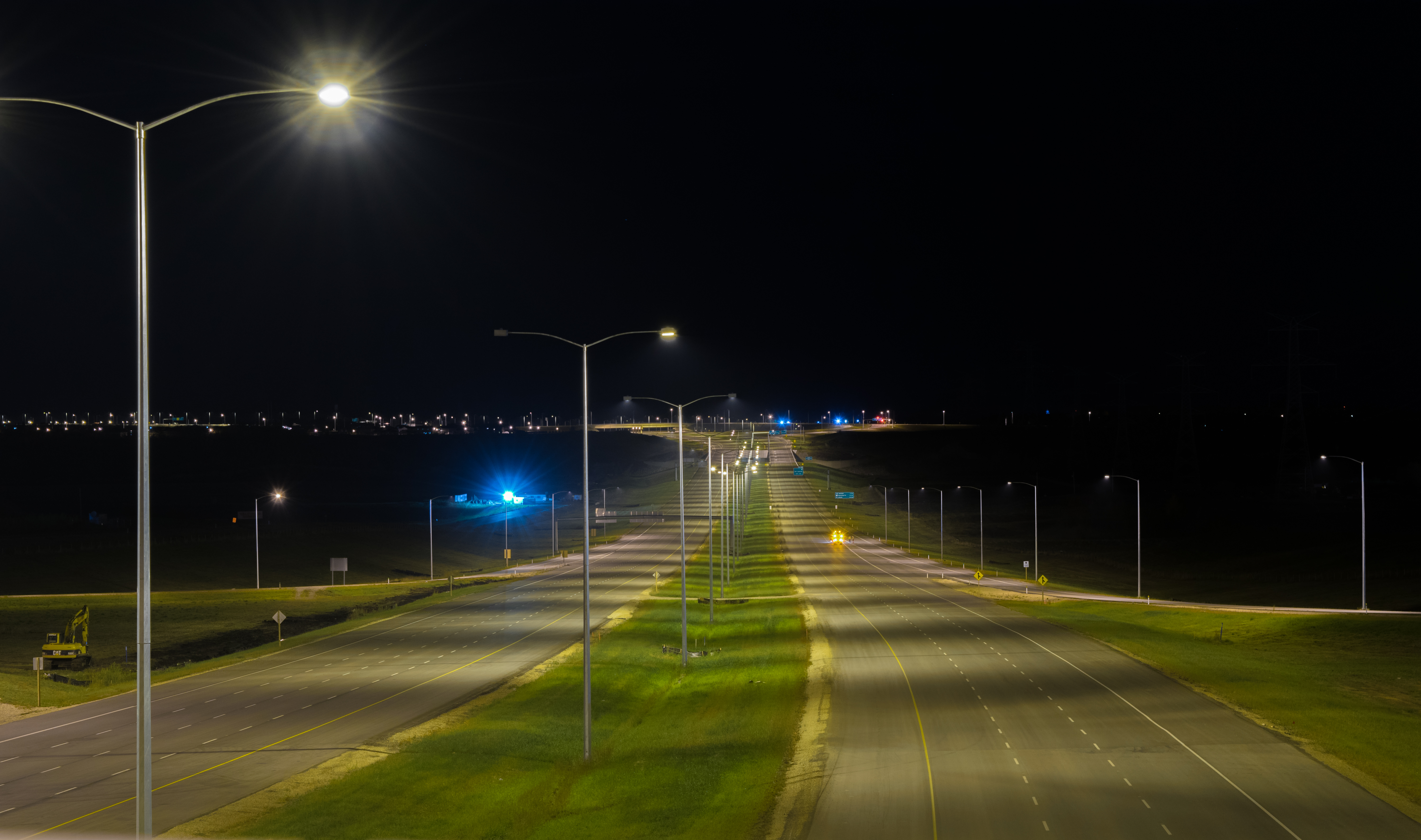 Northeast leg of Anthony Henday Drive in Edmonton, Alberta, Canada.